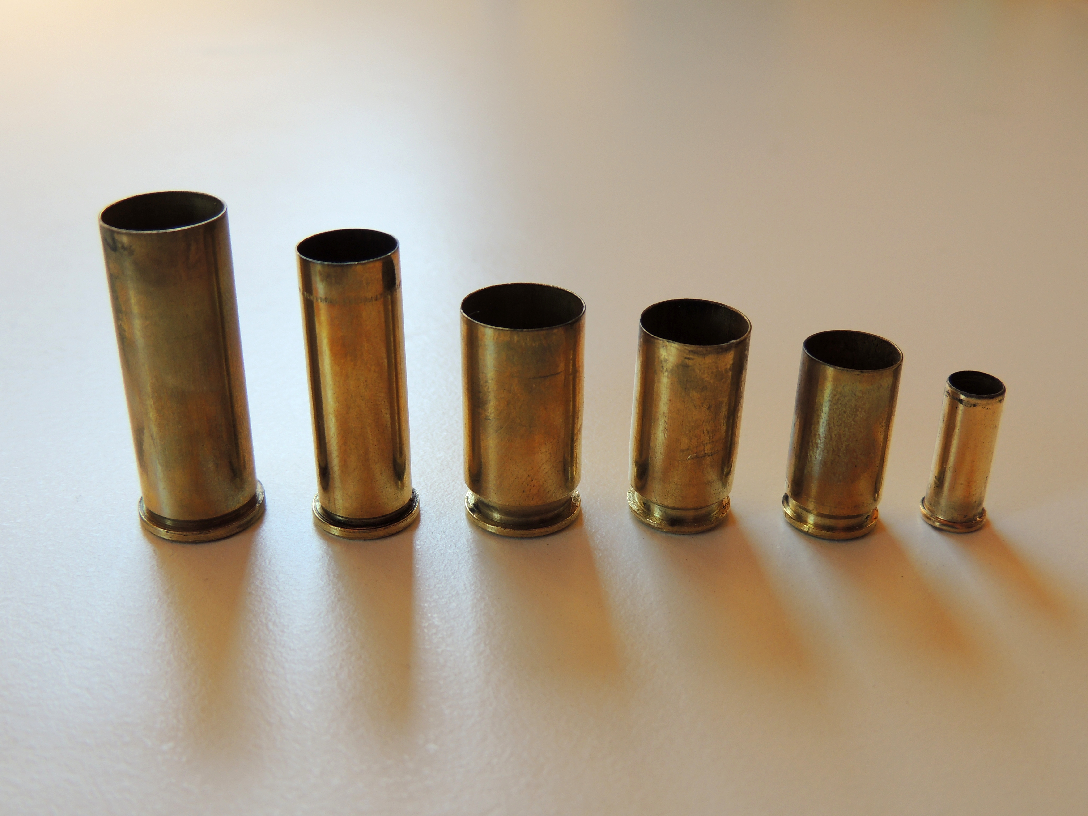 From the right: 22lr, 9mm Luger, 40 S&W, .45 ACP, .38 Special, .44 Magnum